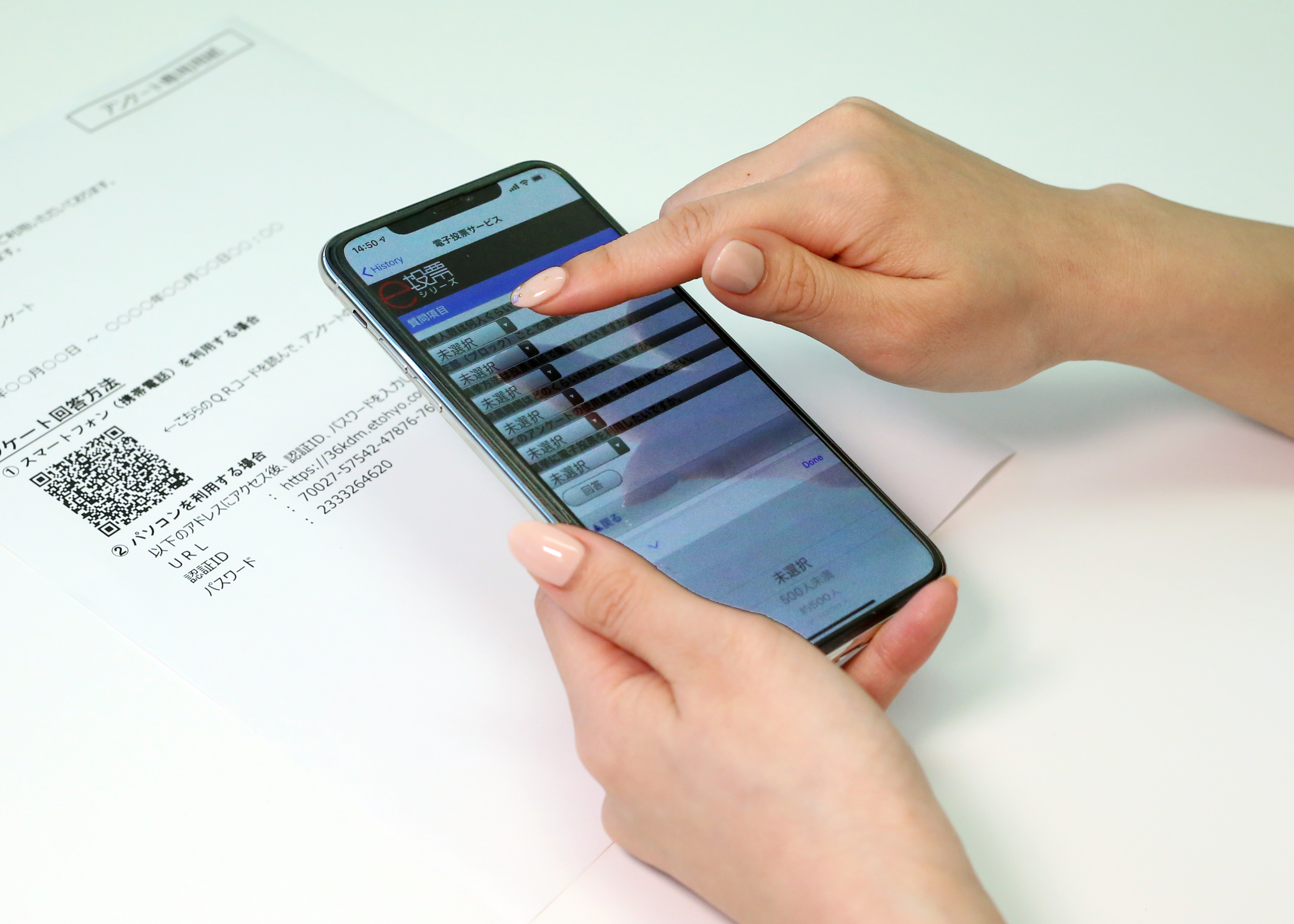 A photo of a Japanese company "Grant Co., Ltd." (located in Osaka) voting on a developed product "e-vote(ｅ投票)"